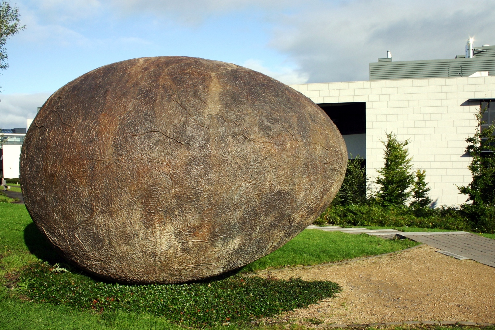 Noah's Egg sculpture by Rachel Joynt, located outside the Veterinary Sciences Building in UCD, Dublin, Ireland.